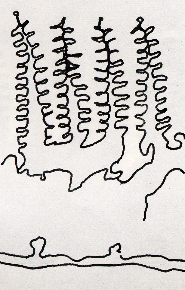 Ink drawing of the 'Christmas tree' thin layer optical interference structures that create the brilliant iridescent (blue) colours of Morpho butterflies. Each subtree has about 10 thin films, seen in cross section. From an electron micrograph.